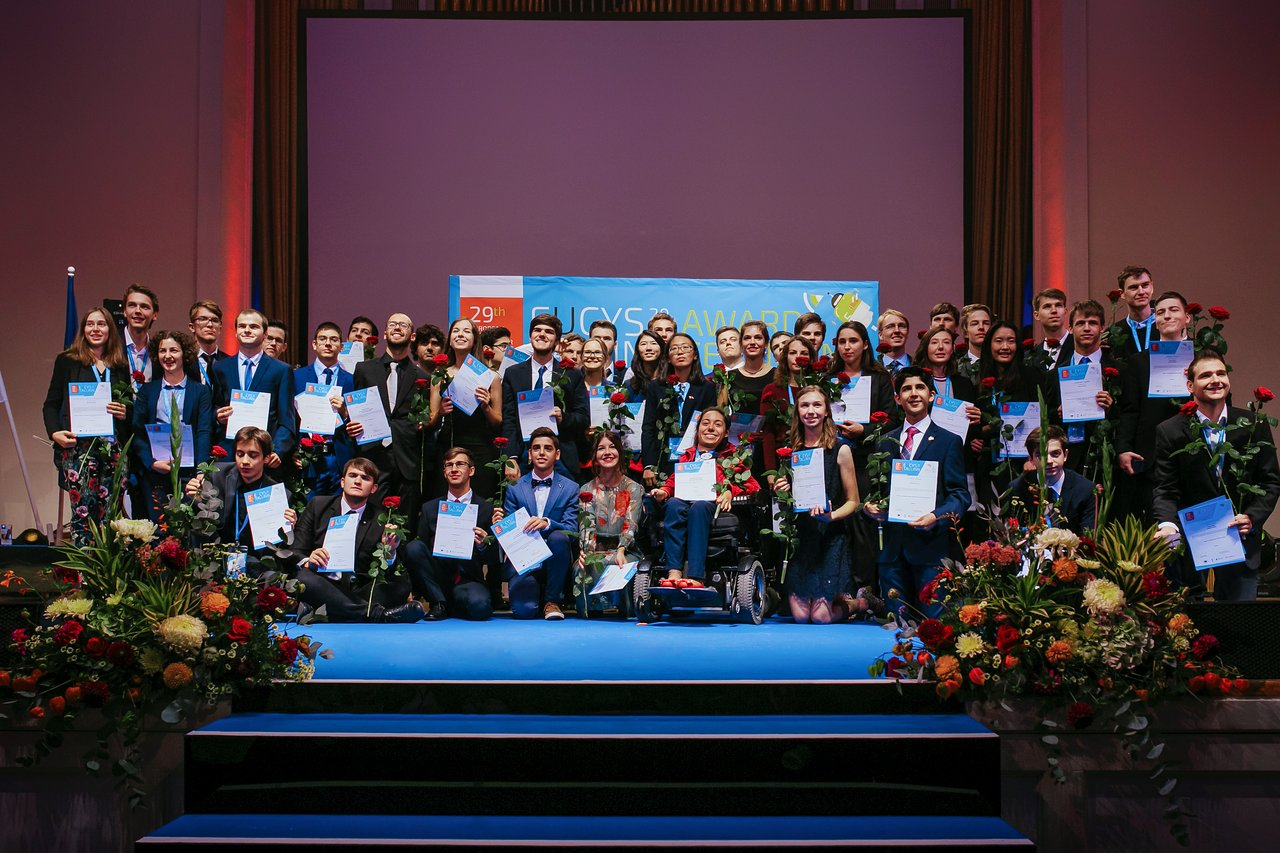 Between 22 and 27 September 2017, 146 young scientists from 40 countries gathered in Tallinn, Estonia to compete in this year’s European Union Contest for Young Scientists (EUCYS). Alongside the first, second and third prizes (3 of each) were a number of donated special prizes, including one for the best project in the field of astronomy and space physics, donated by ESO. Credit: EU/EUCYS 2017